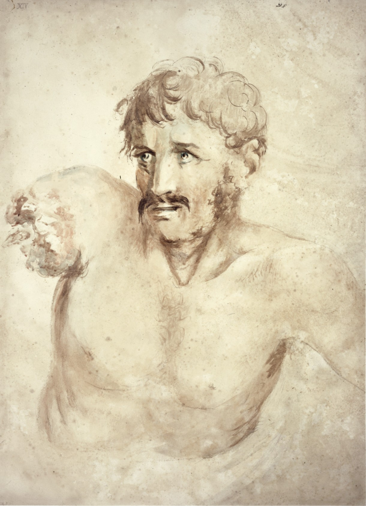 Number 14: Cannon shot wound to arm, Anthony Tuittmeyer, Hôpital des Jesuites. Archives & Manuscripts Keywords: Charles Bell; Charles Bell